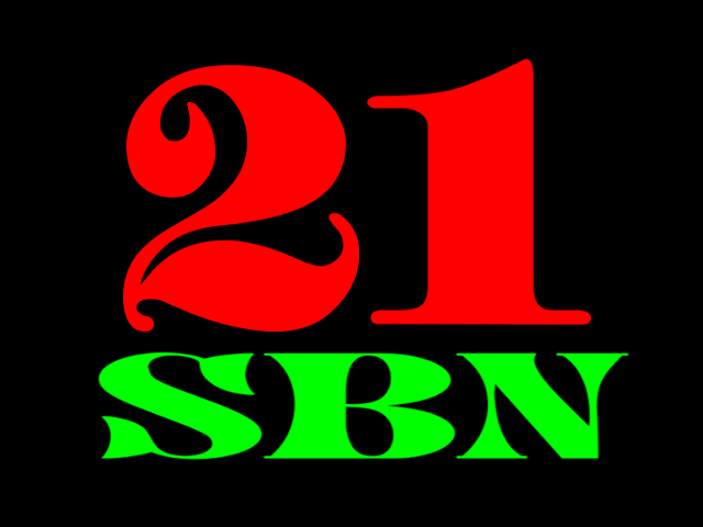 This is the logo of SBN 21 from 1996 to 2005, using two font faces, Tiffany Heavy font (Number 21) and Jupiter Regular font (Call Letters, S, B, and N).